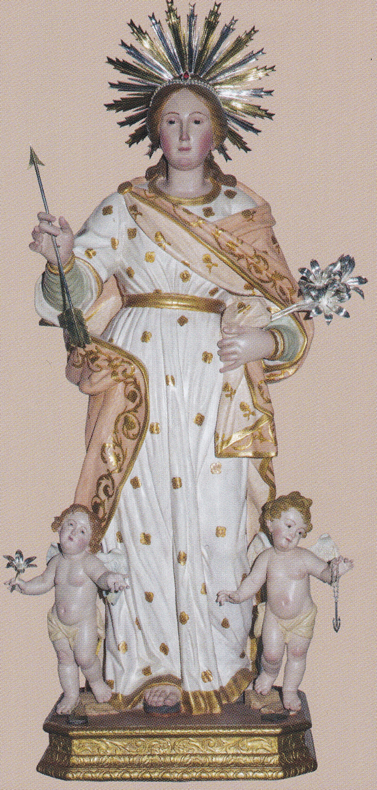 Statue of Saint Philomena in Mugnano del Cardinale (Avellino)